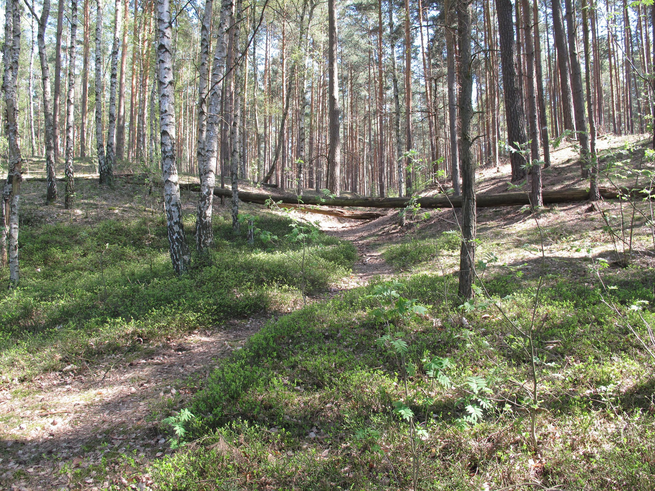 Kunersdorfer Forst (forest) in the nature park Nuthe-Nieplitz in Germany, Brandenburg, district Potsdam-Mittelmark, municipalitiy Seddiner See.